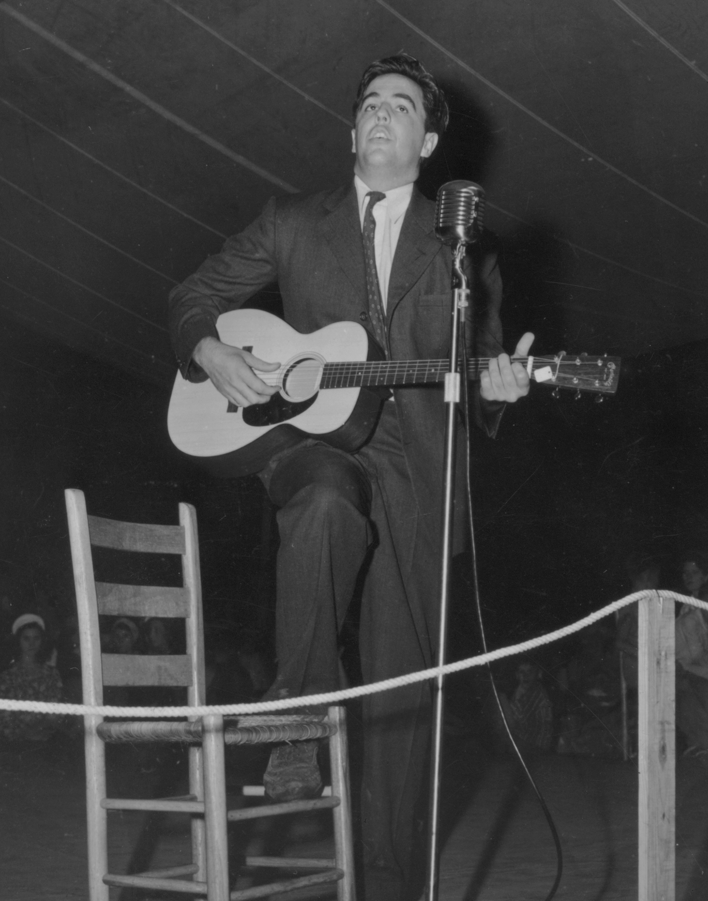 Alan Lomax playing guitar on stage at the Mountain Music Festival, Asheville, North Carolina, United States. Alan Lomax (January 31, 1915 – July 19, 2002) was an American folklorist and ethnomusicologist. He was one of the great field collectors of folk music of the 20th century, recording thousands of songs in the United States, Great Britain, Ireland, the Caribbean, Italy, and Spain.